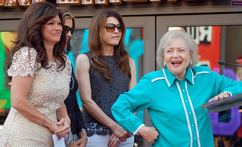 Valerie Bertinelli, Wendie Malick, Jane Leeves, and Betty White at a ceremony for Bertinelli to receive a star on the Hollywood Walk of Fame.